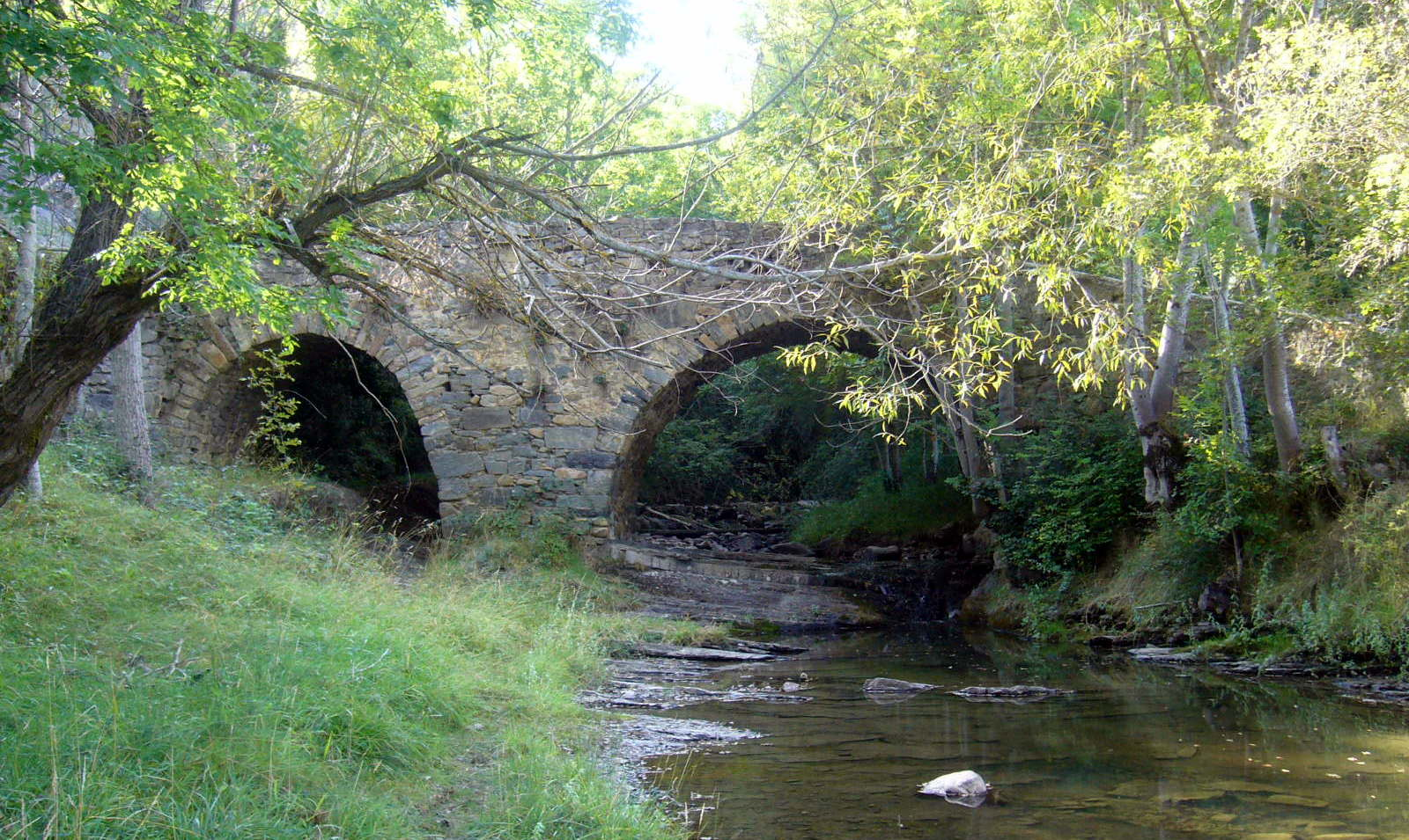 Bridge over the Baos River in Santa Cruz de Yanguas, Soria, Spain.